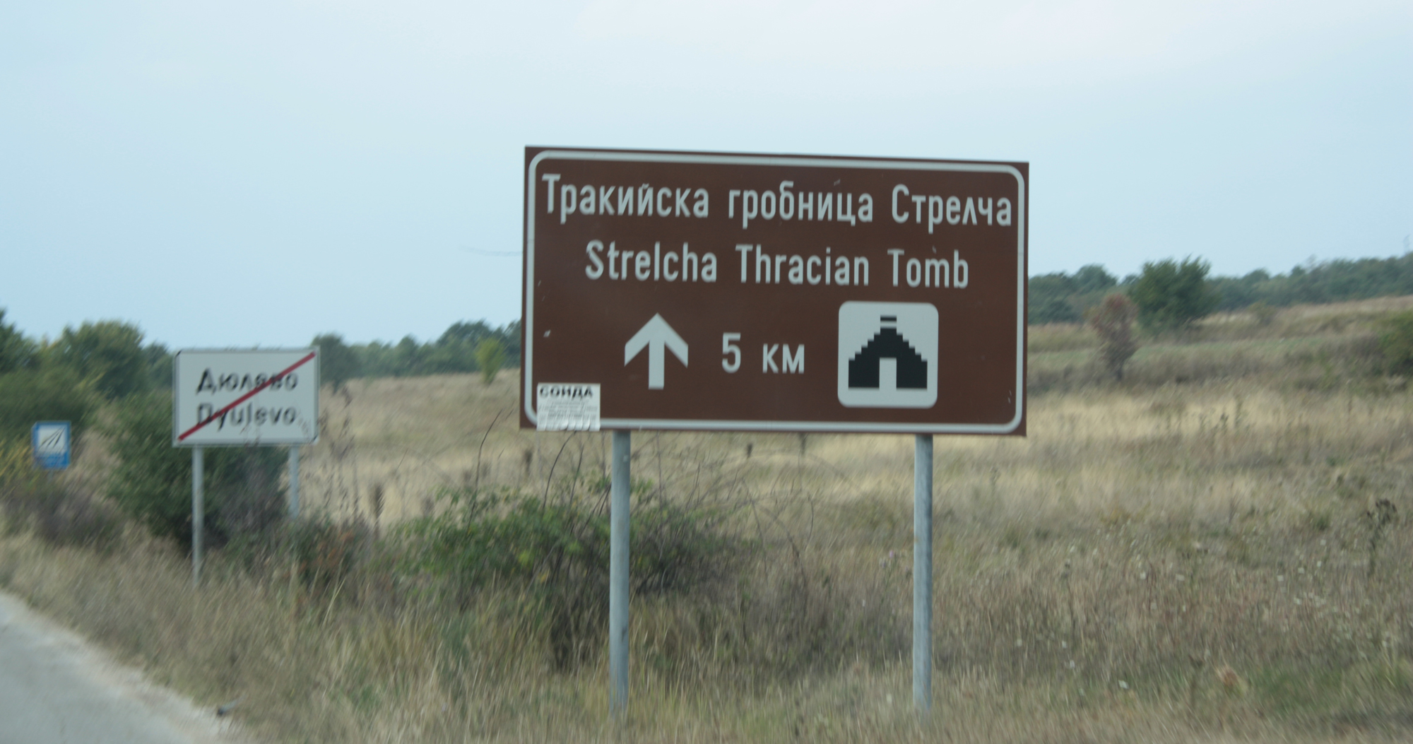 Tracian tomb Strecha signboard near Dyulevo, Bulgaria